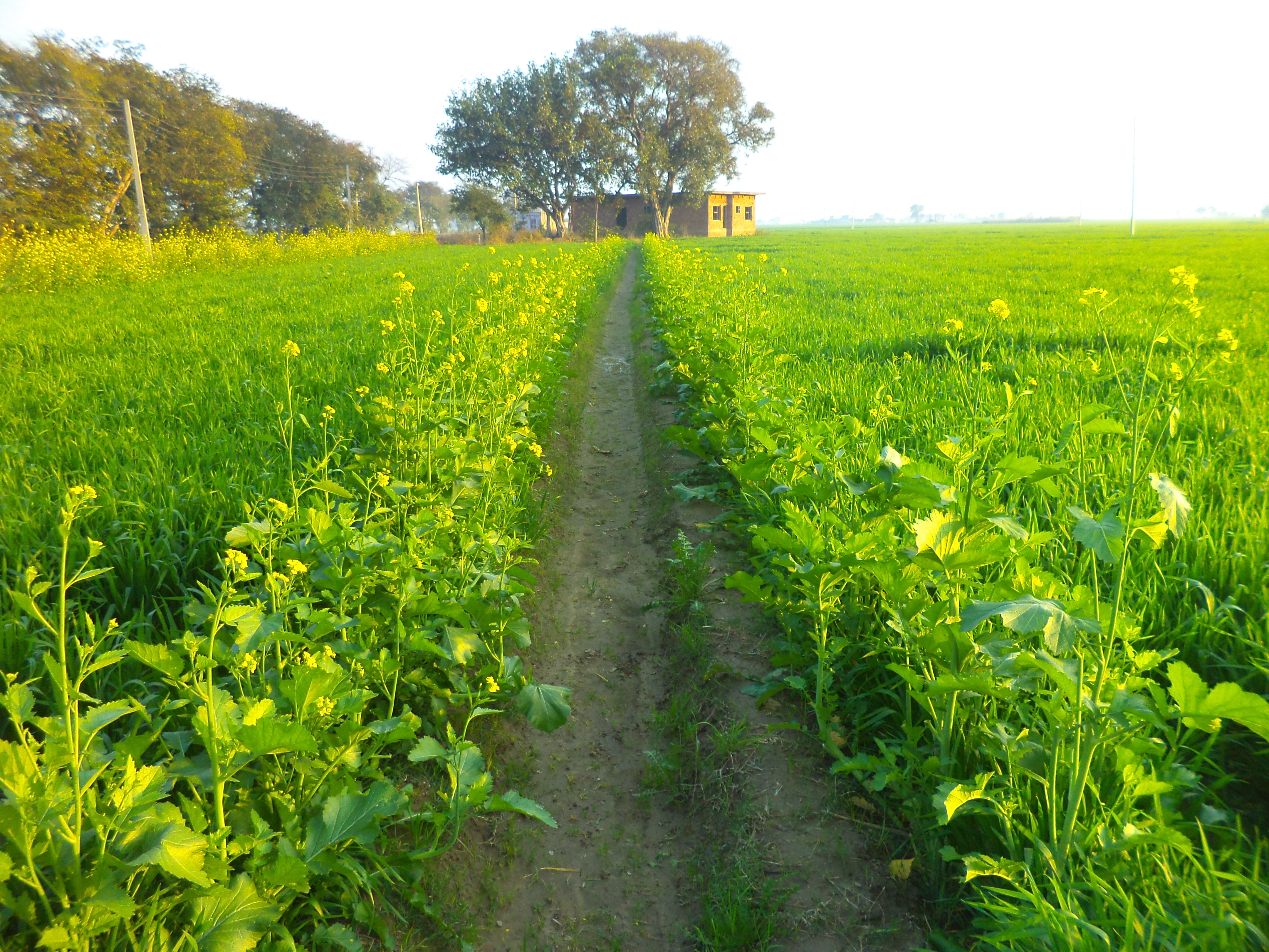 Aloona Tola ,Teh Payal,Distt Ludhiana ,Punjab